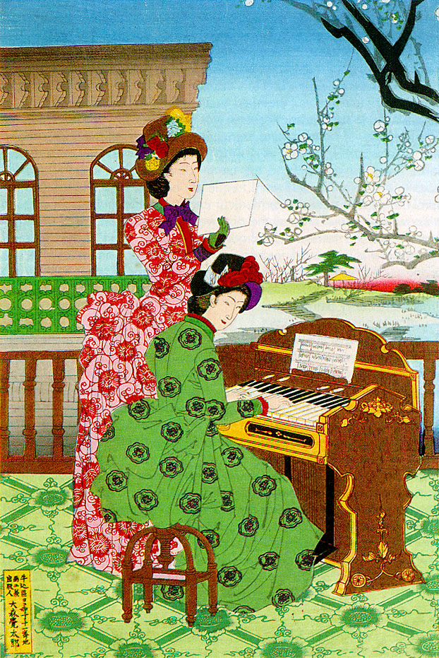 1887 Japanese print depicting two young ladies dressed according to the latest Western fashions of the time (with bustles) -- except that the colors and designs of the fabrics are done to Japanese tastes.